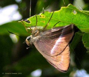 Common Banded Owl (Hasora chromus)